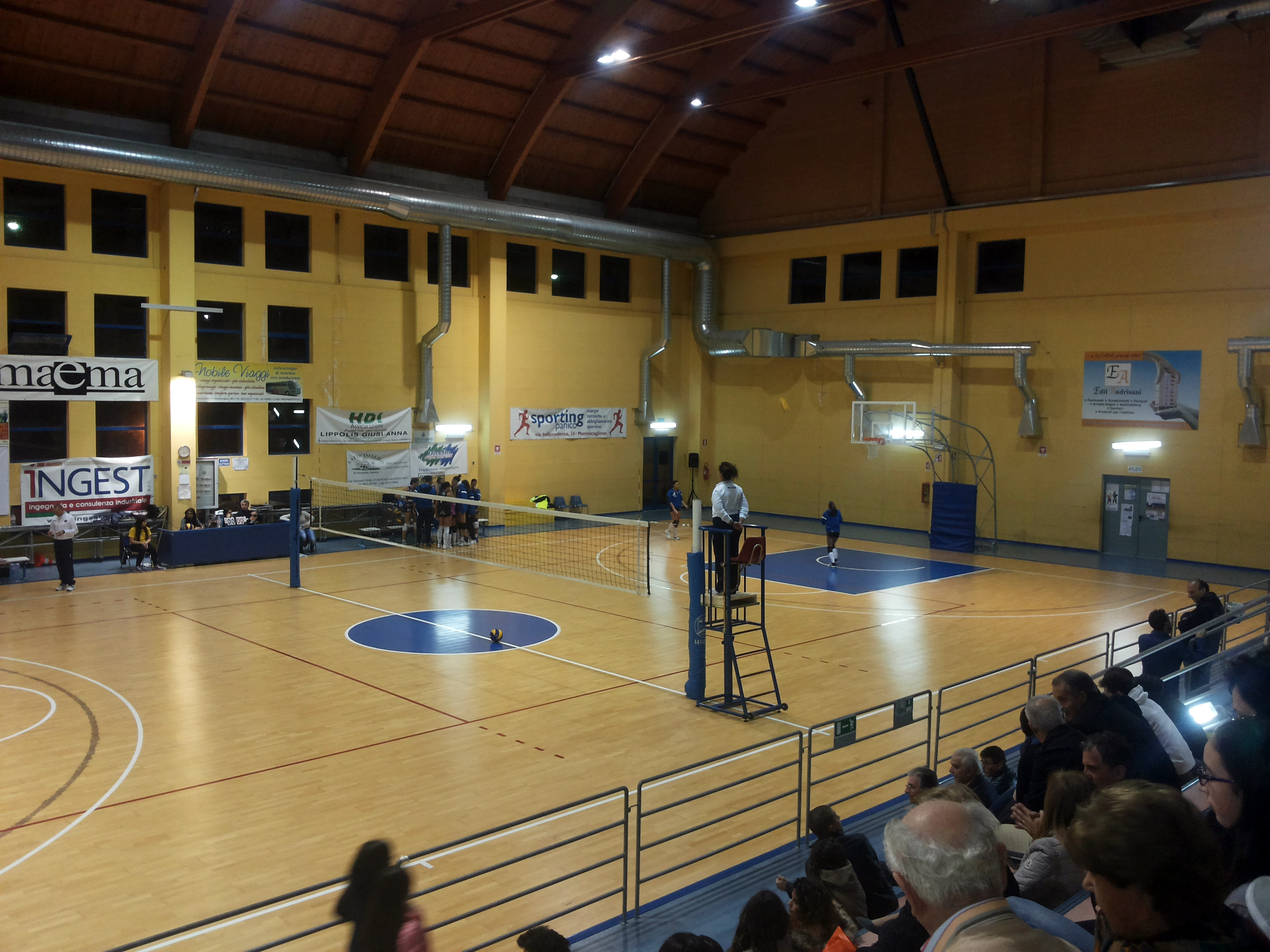 Indoor Arenas "Karol Wojtyla" of Montescaglioso